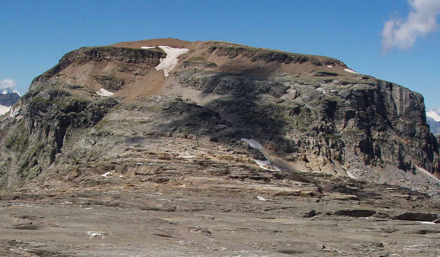 Pizzo Diei from bivacco Leoni (VB, Italy)